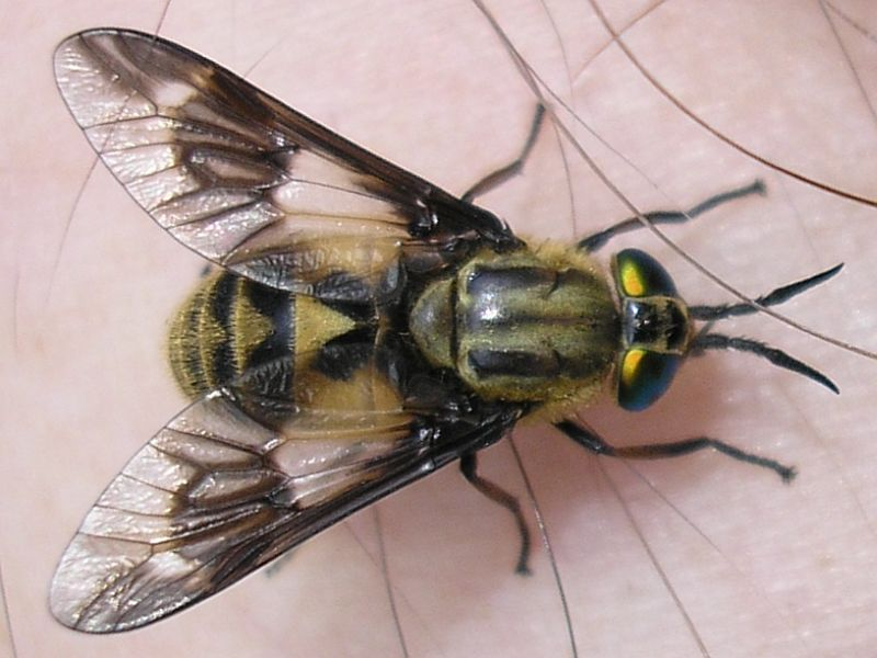 Female Deer fly (Chrysops relictus) on human legg, about to bite (det. Tony Irwin) Location: Goor, Netherlands Keywords: Deefly, Tabanidae, Chrysops